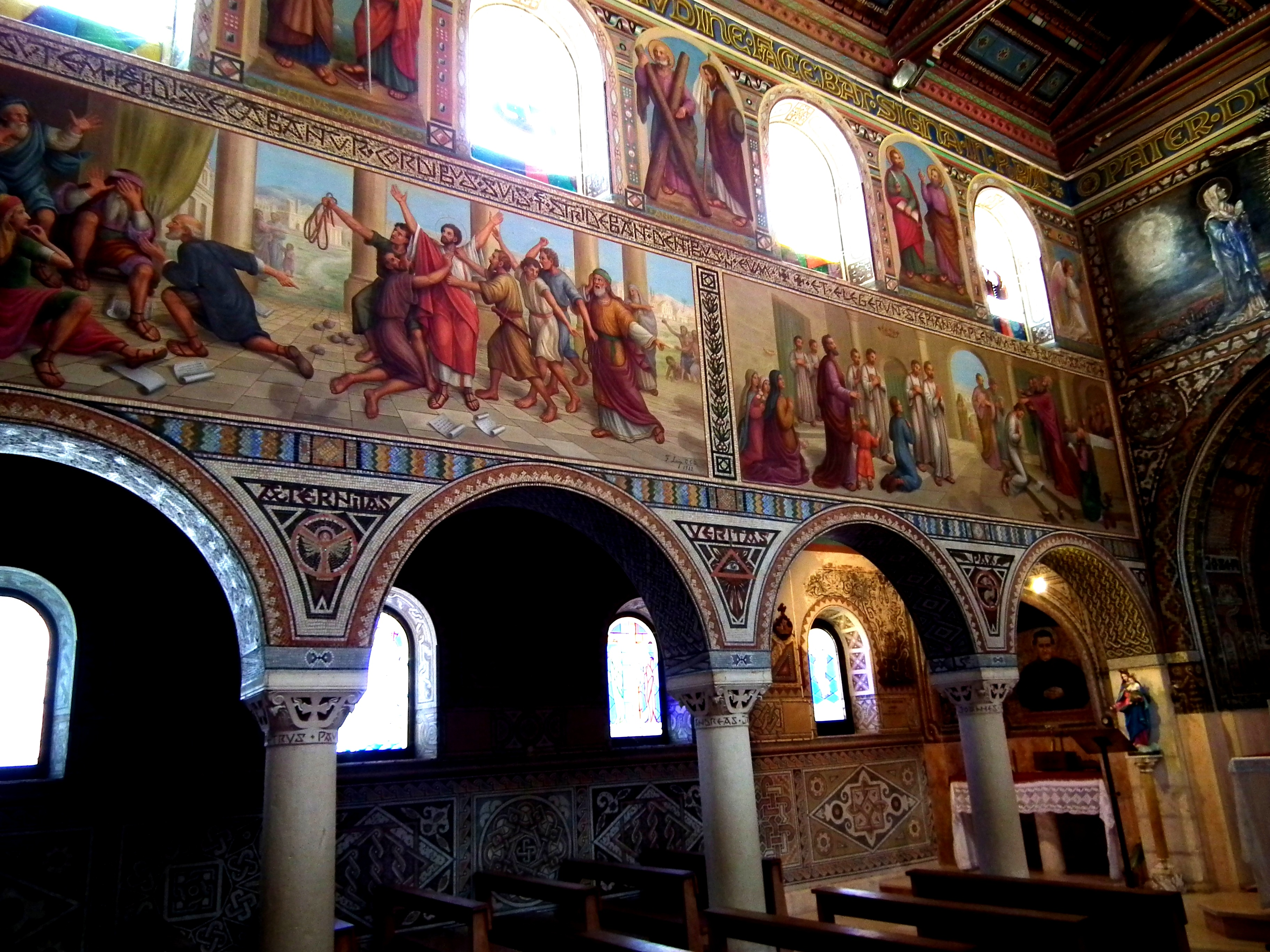 visit in st.stephen\'s modern church